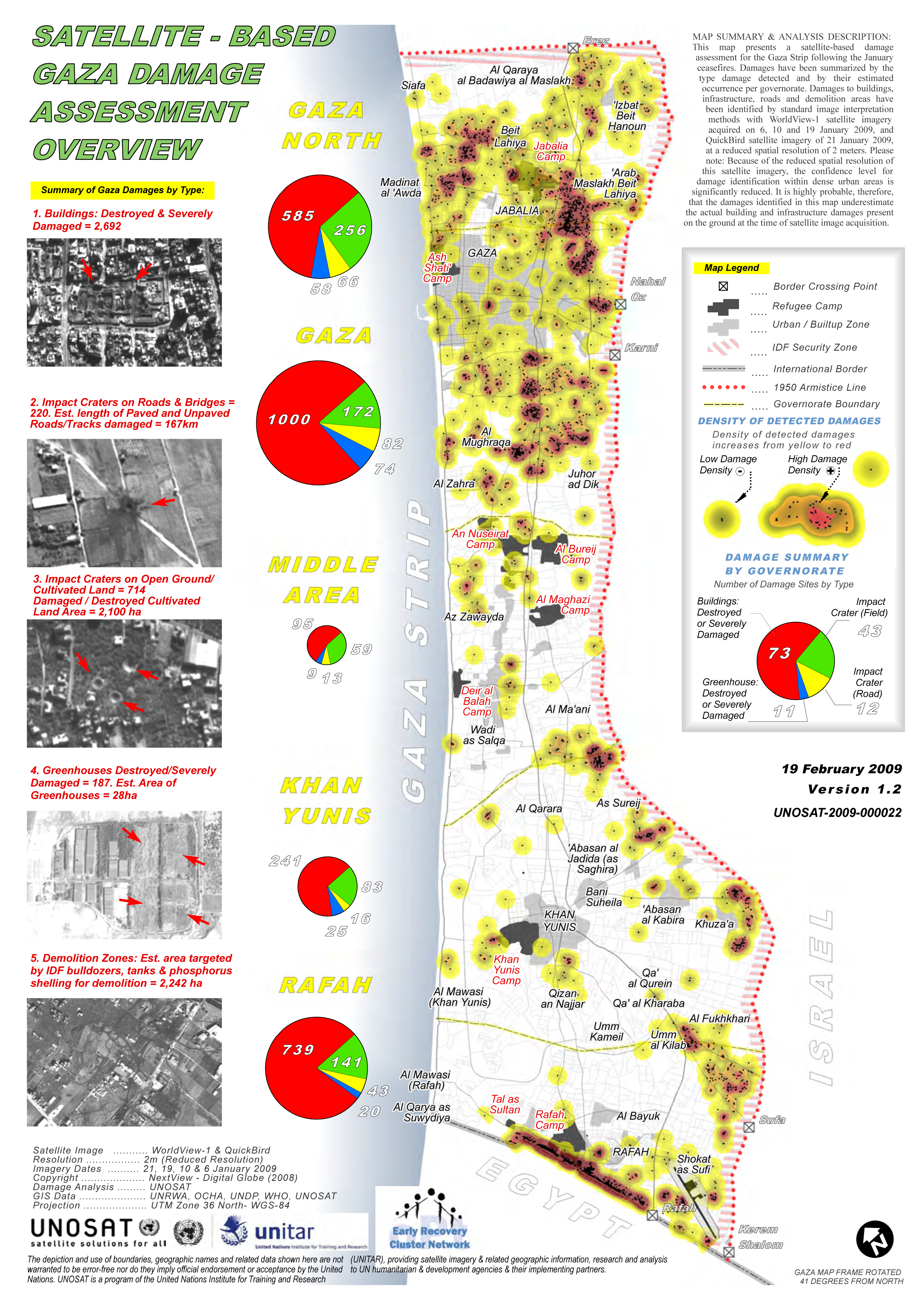 From UNOSAT site Satellite-Based Gaza Strip Damage Assessment Overview Product ID: 1338 - 10 Mar, 2009 - English This map presents a satellite-based damage assessment for the Gaza Strip following the January ceasefires. Damages have been summarized by the type damage detected and by their estimated occurrence per governorate. Damages to buildings, infrastructure, roads and demolition areas have been identified by standard image interpretation methods with WorldView-1 satellite imagery acquired on 6, 10 and 19 January 2009, and QuickBird satellite imagery of 21 January 2009, at a reduced spatial resolution of 2 meters. Please note: Because of the reduced spatial resolution of this satellite imagery, the confidence level for damage identification within dense urban areas is significantly reduced. It is highly probable, therefore, that the damages identified in this map underestimate the actual building and infrastructure damages present on the ground at the time of satellite image acquisition. Source(s): Satellite Image: WorldView-1 & QuickBird Resolution: 2m (Reduced Resolution) Imagery Dates: 21, 19, 10 & 6 January 2009 Copyright: NextView - Digital Globe (2008) Damage Analysis: UNOSAT GIS Data: UNRWA, OCHA, UNDP, WHO, UNOSAT Note: A test conversion from PDF to SVG using Inkscape produced errors. Arrows indicating bomb craters etc were handed as text but converted to F chars.